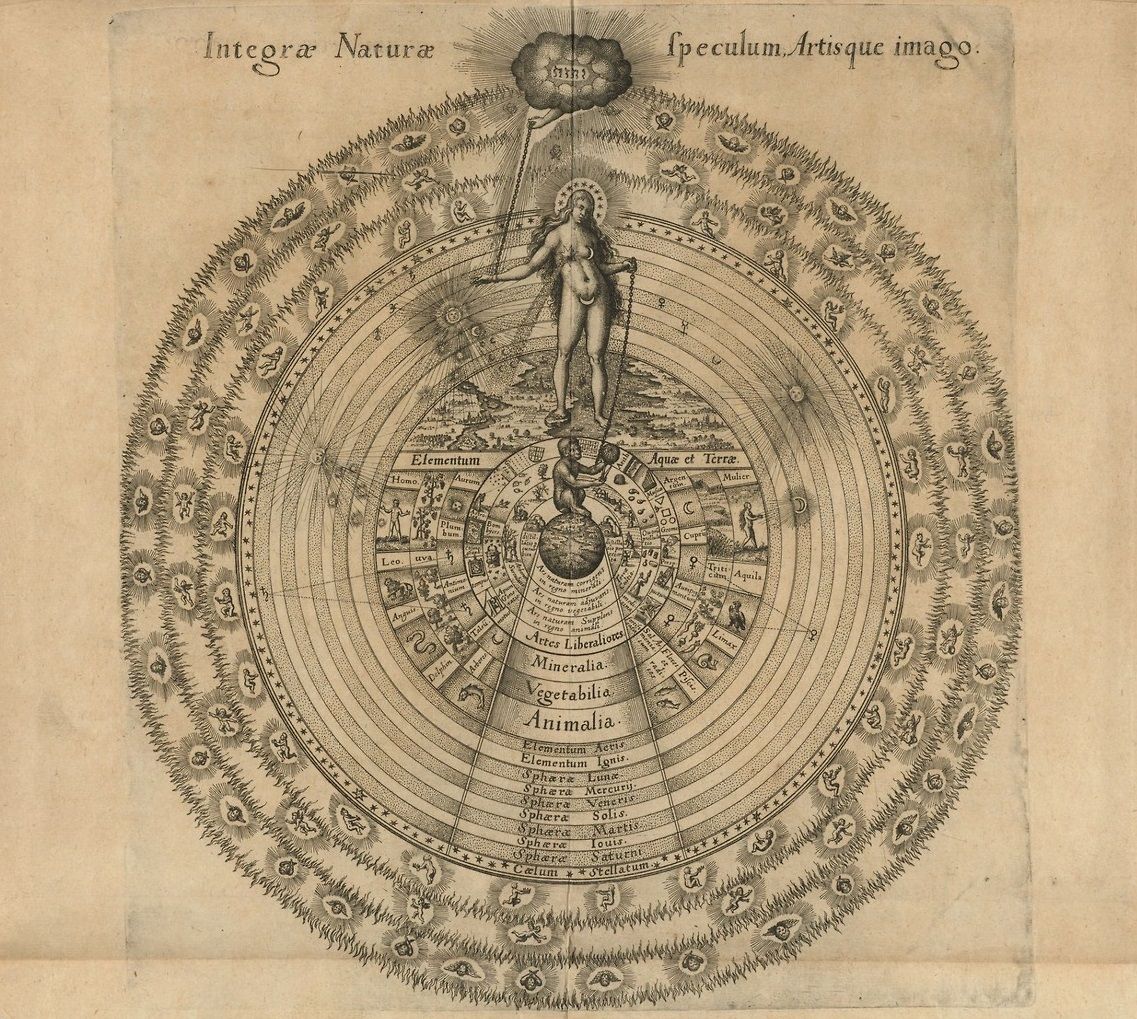 Illustration, "Integrae Naturae" from Utriusque cosmi maioris scilicet et minoris metaphysica, physica atque technica historia, 1624, by Robert Fludd (1574-1637). EC F6707 B638p v.1, Houghton Library, Harvard University